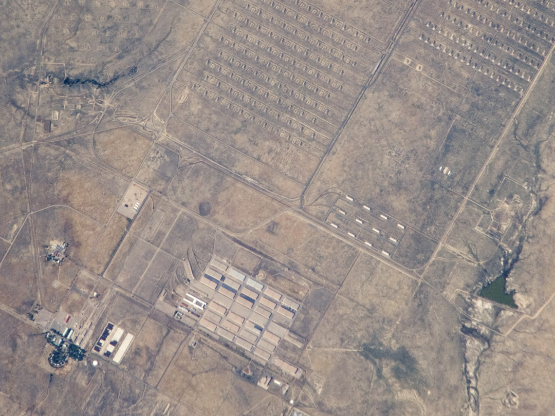 This astronaut photograph illustrates the unusual man-made landscape of the Pueblo Chemical Depot located near the city of Pueblo, Colorado. ISS Crew Earth Observations: ISS017-E-18075IdentificationMissionISS017 (Expedition 17)RollEFrame18075Country or Geographic NameUSA-COLORADOFeaturesPUEBLO CHEMICAL DEPOTCenter Point Latitude38.3° NCenter Point Longitude-104.3° ECameraCamera Tilt18°Camera Focal Length800 mmCameraN2: Nikon D2XsFilm4288E : 4288 x 2848 pixel CMOS sensor, RGBG imager color filter.QualityPercentage of Cloud Cover0-10%Nadir What is Nadir?Date2008-10-01Time21:17:47Nadir Point Latitude37.3° NNadir Point Longitude-104.3° ENadir to Photo Center DirectionNorthSun Azimuth229°Spacecraft Altitude189 nautical miles (350 km)Sun Elevation Angle36°Orbit Number532